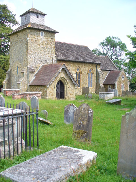 Wotton Church. St John's church is not in the Domesday Book but it probably dates from that period. It contains many Evelyn monuments - the family from Wotton House.